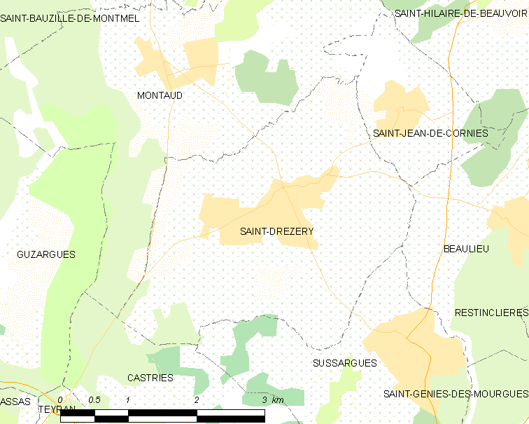 Map commune FR insee code 34249.png - Saint-Drézéry